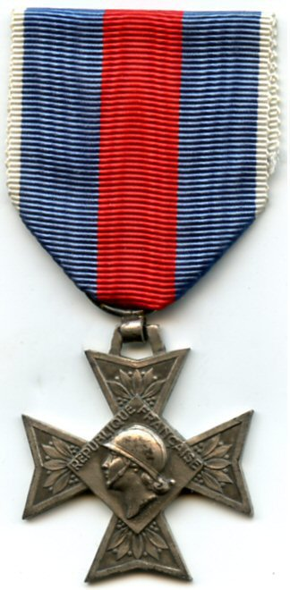 France - Knight of the Order of Military Merit. Awarded between 1957 and 1964.